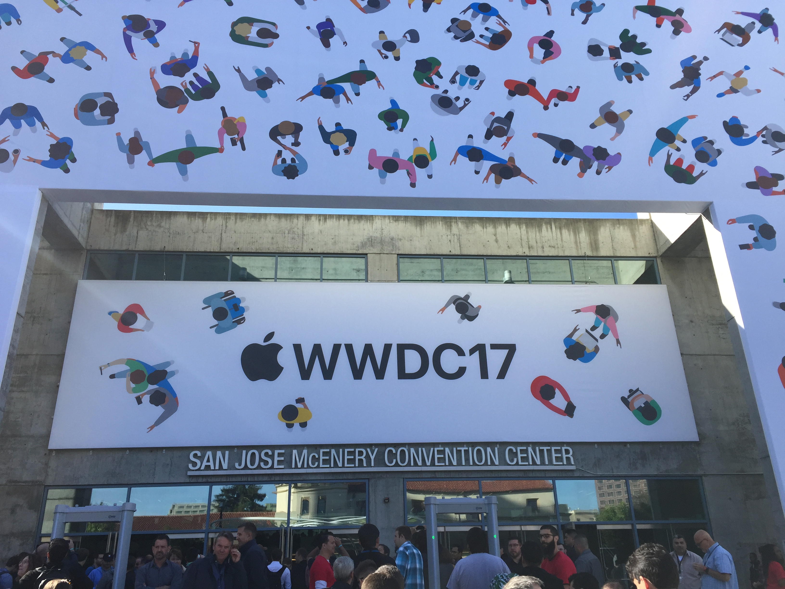 The front entrance to the San Jose Convention Center in San Jose, California, United States, during the 2017 Apple Worldwide Developers Conference. The Lin Utzon tile mural adorning the entrance has been wrapped in WWDC brand artwork.